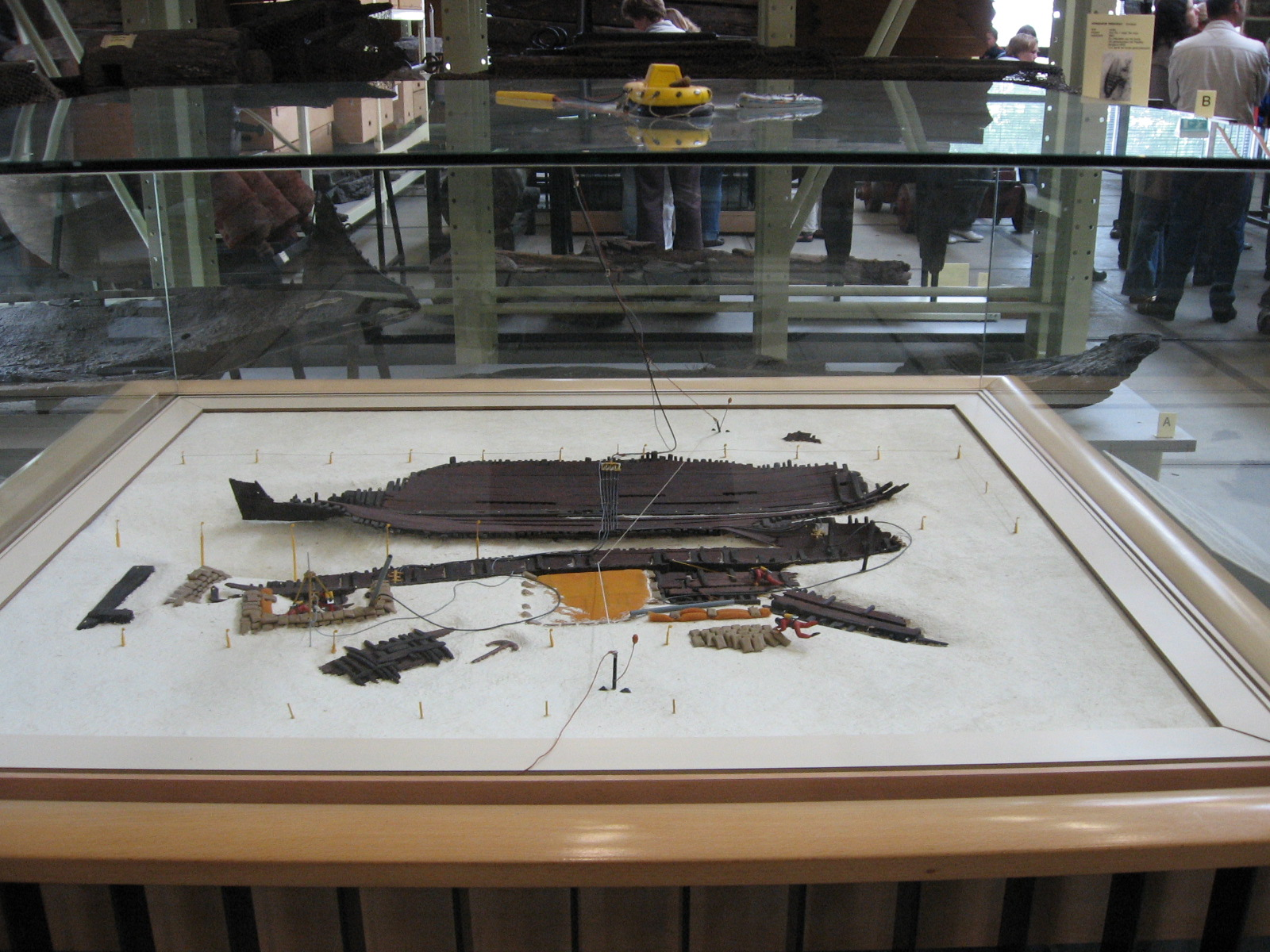 Diorama @ RACM in Lelystad, the Netherlands